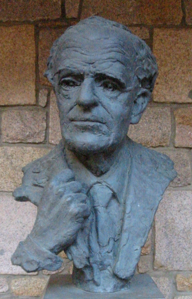 Bust of Arthur Mourant outside La Société Jersiaise, Saint Helier, Jersey. Sculptor: John Doubleday